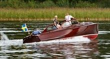 Boat built by Jac Iverssen (1884-1974)